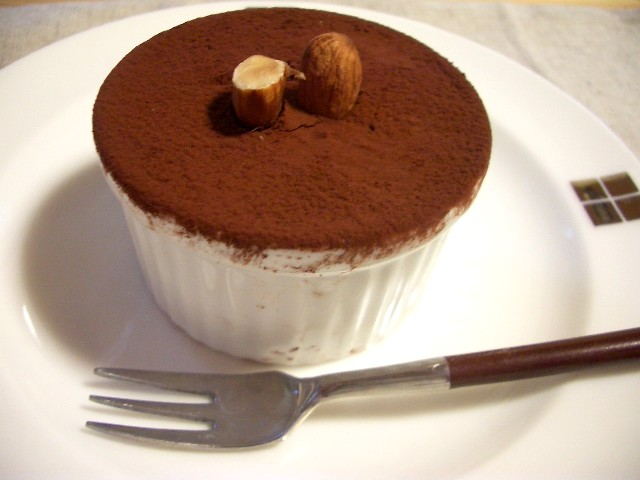 tiramisu with an almond garnish